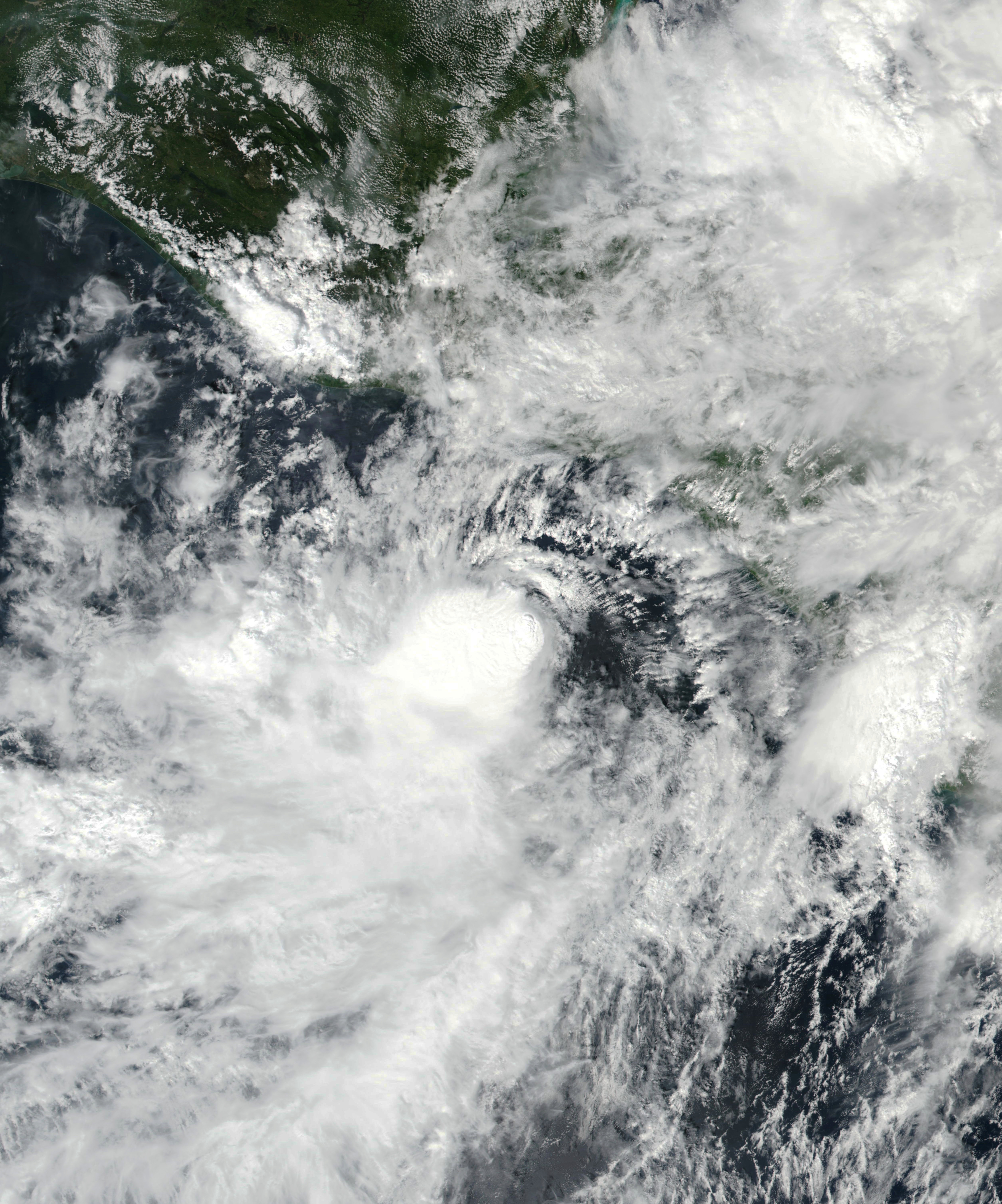 Tropical Storm Selma off Central America on October 27, 2017